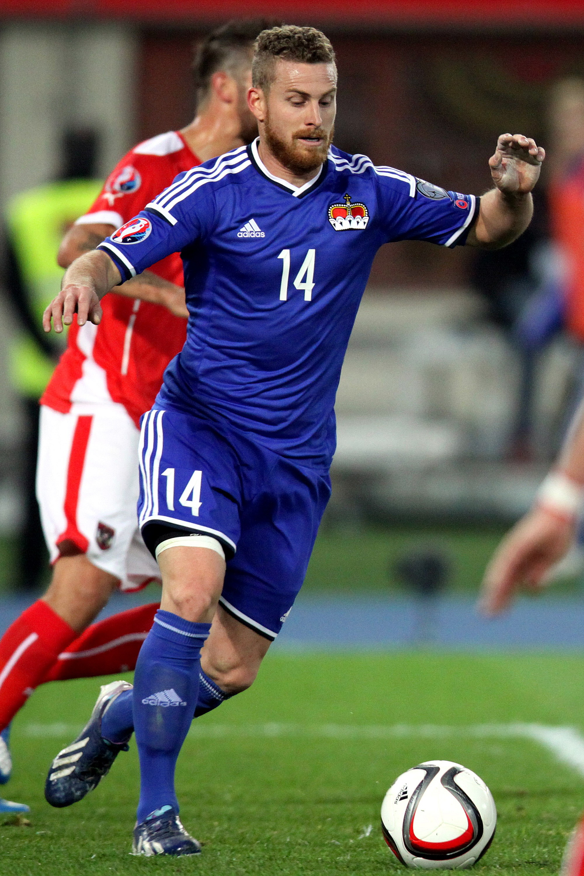 UEFA Euro 2016 qualifying, Group G – Austria (red shirts) vs. Liechtenstein (blue shirts) 3–0 (1–0) on 2015-10-12 in Ernst-Happel-Stadion, Vienna – The photo shows Yves Oehri.